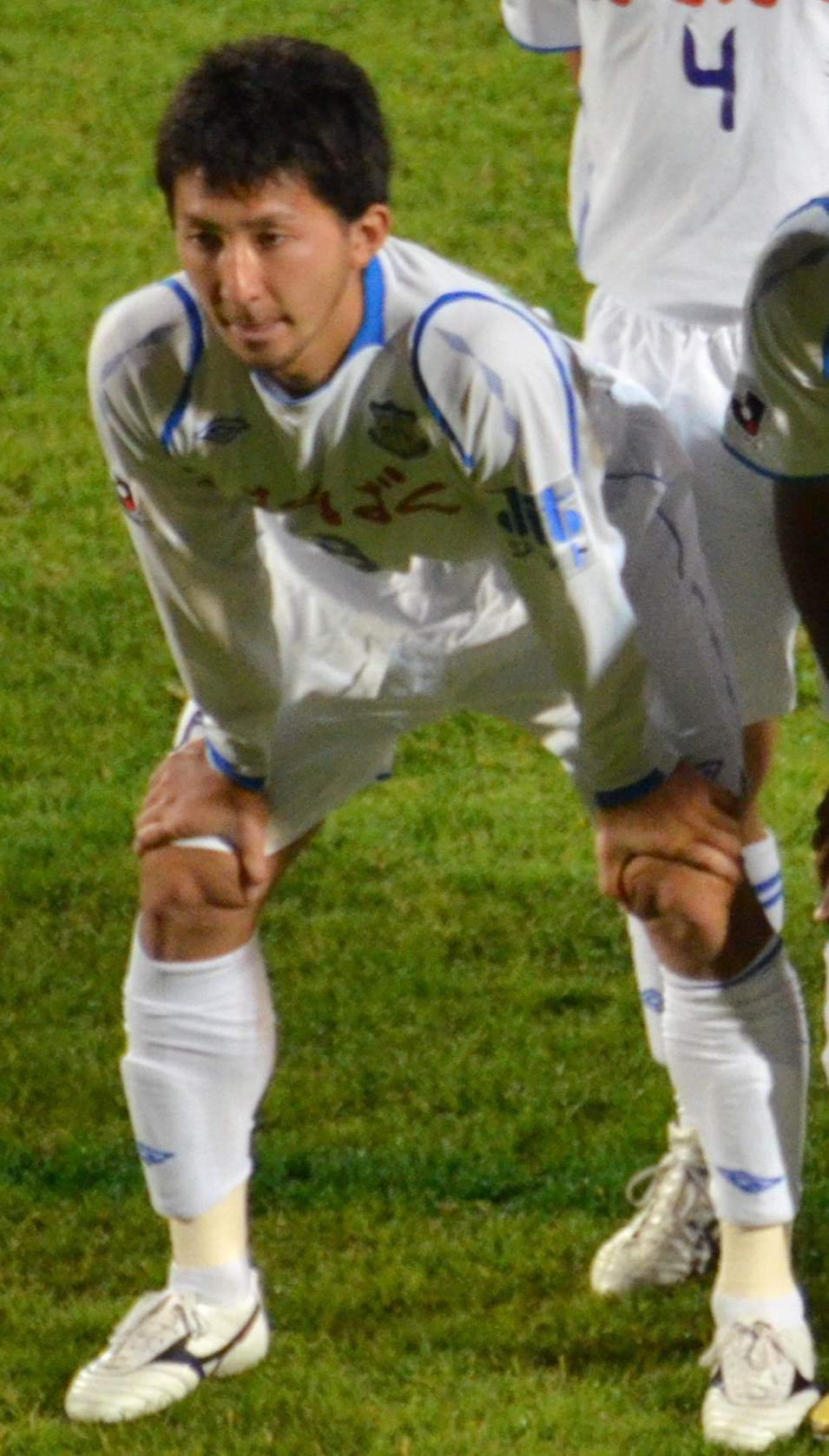 Yuji Yabu cropped from DSC_1758